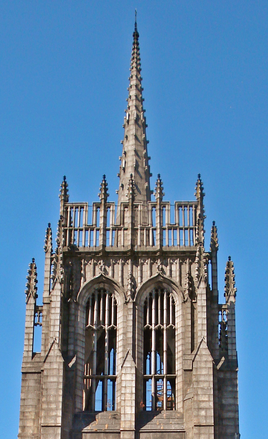 Marischal College, University of Aberdeen detail of the tower of the rebuilt Greyfriars Kirk, 1891, photo courtesy Jane Cartney